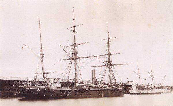 HMS Rambler